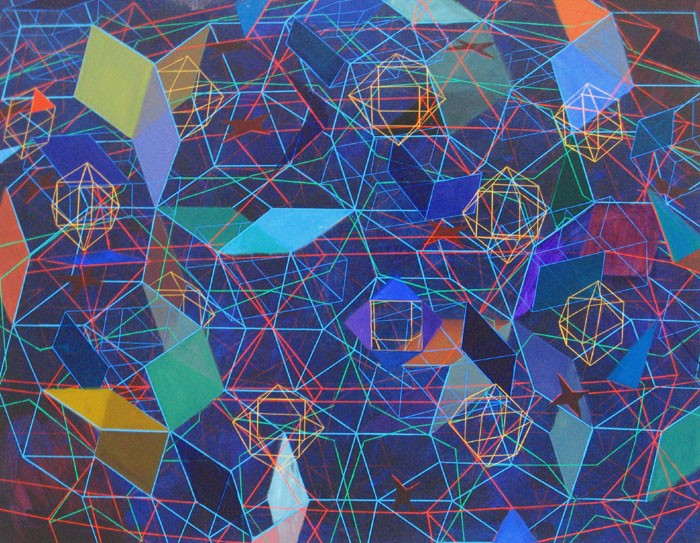 Painting 2006-7 by American artist Tony Robbin. Acrylic on canvas, 56 inches by 70 inches.